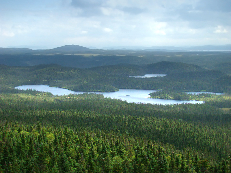 Terra Nova National Park, Central Newfoundland, Canada. View from Ochre Hill.